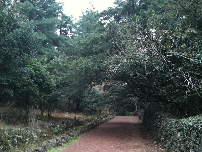 제주 비자림, Jeju Bijarim